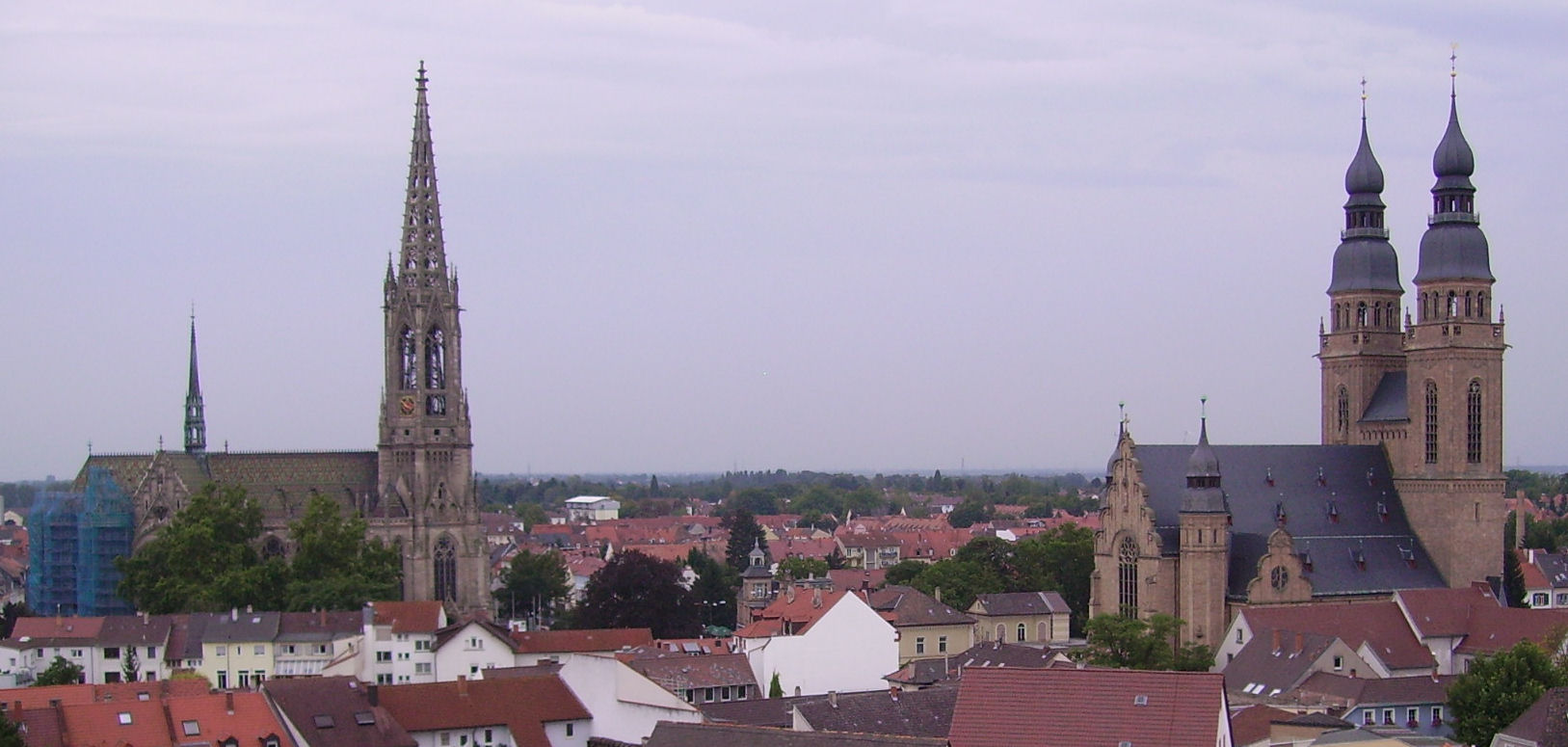 Altpörtel city gate in Speyer, Germany